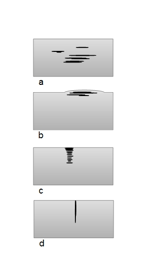 Examples of hydrogen embrittlement form